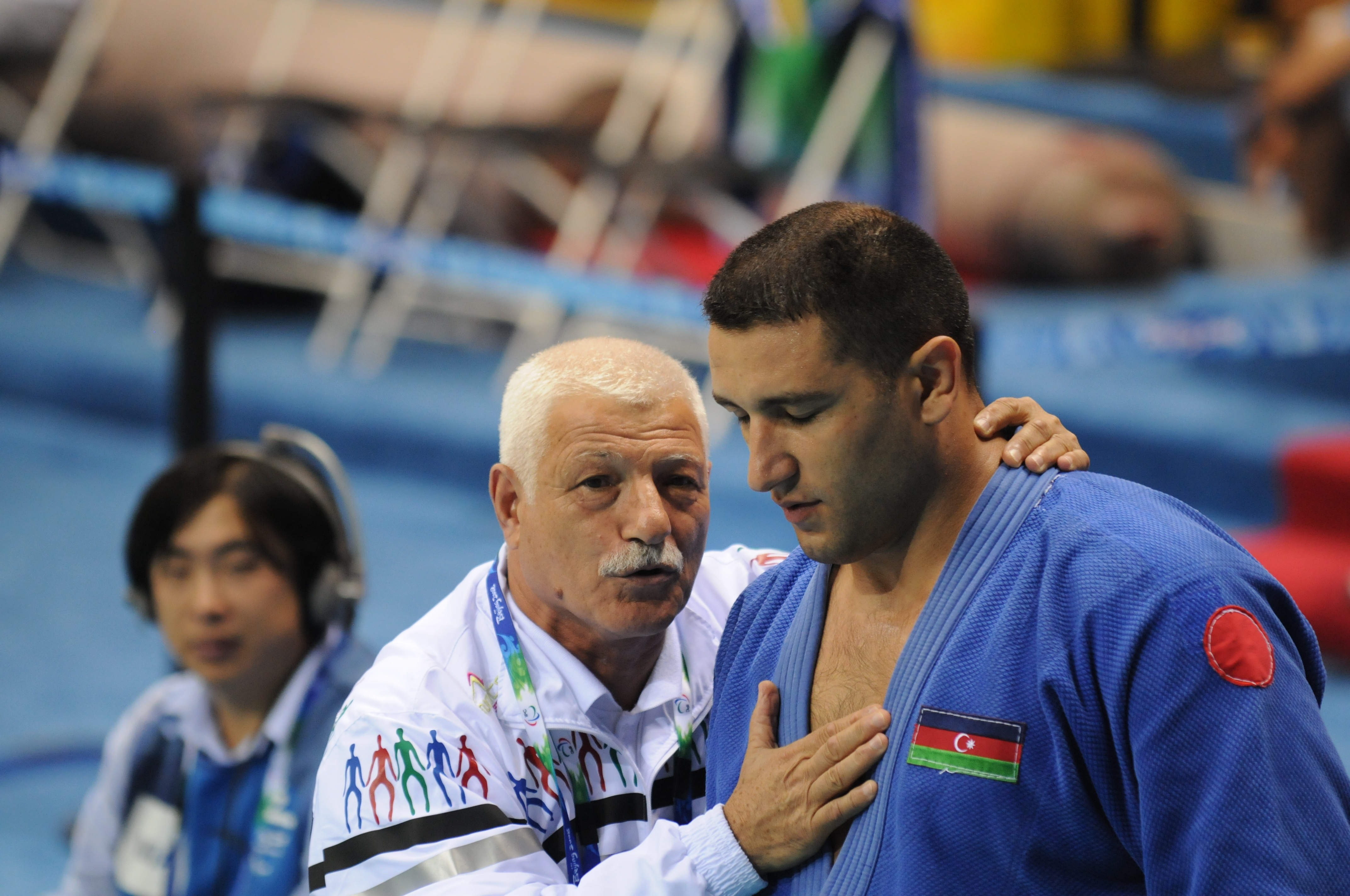 Ilham Zakiyev and Ahmeddin Rajabli at 2008 Paralympics